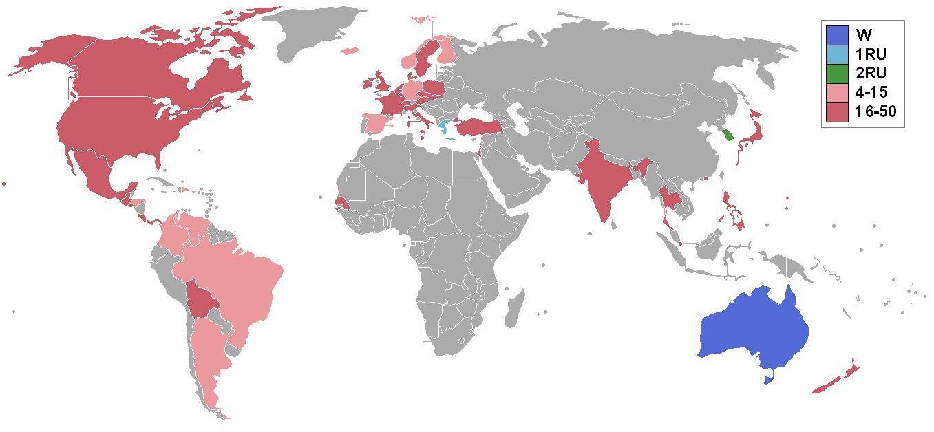 ms international 1992 results map